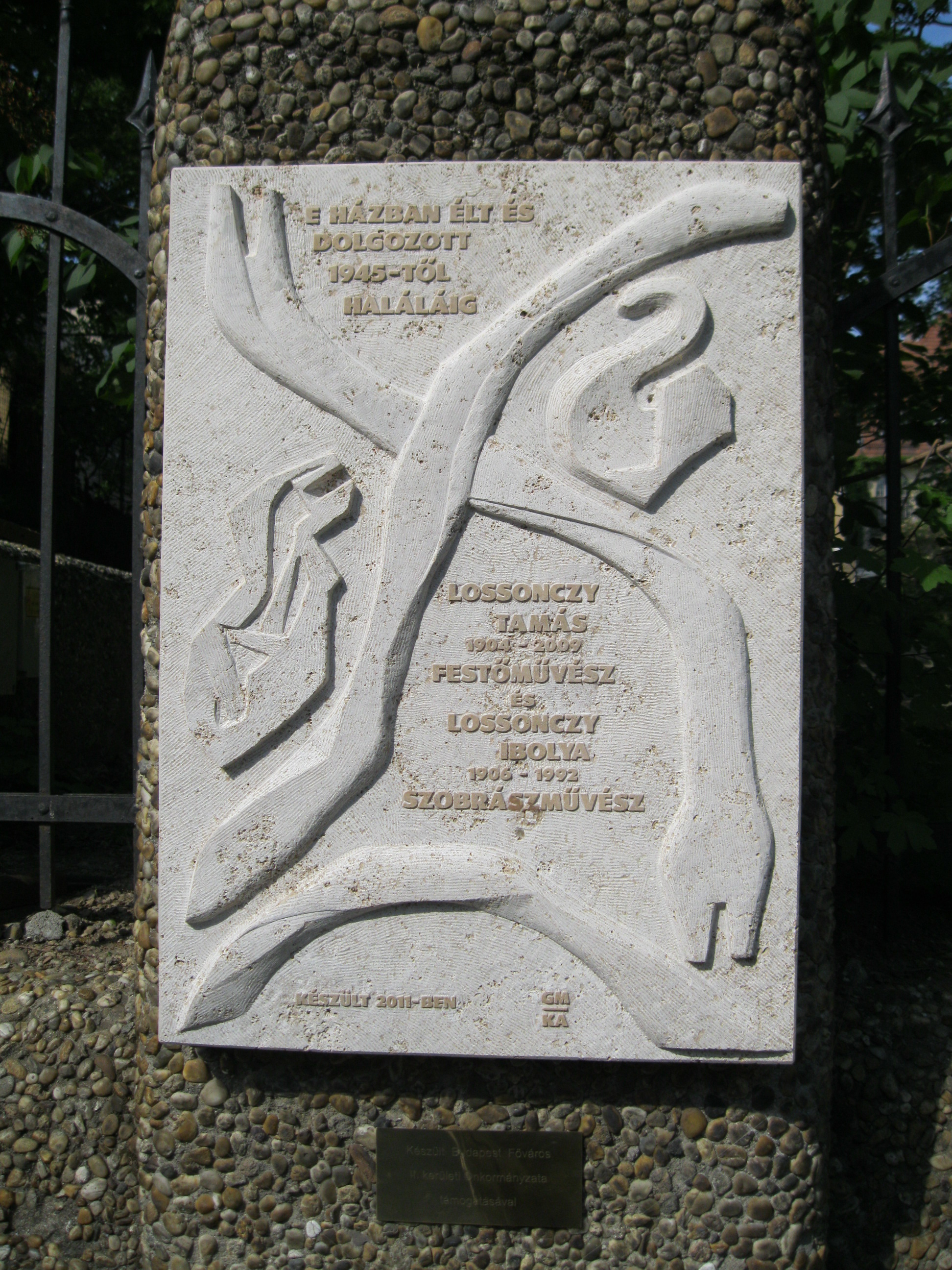 Commemorative plaque of Tamás Lossonczy and Ibolya Lossonczy, Budapest District II, Ady Endre Street No 17